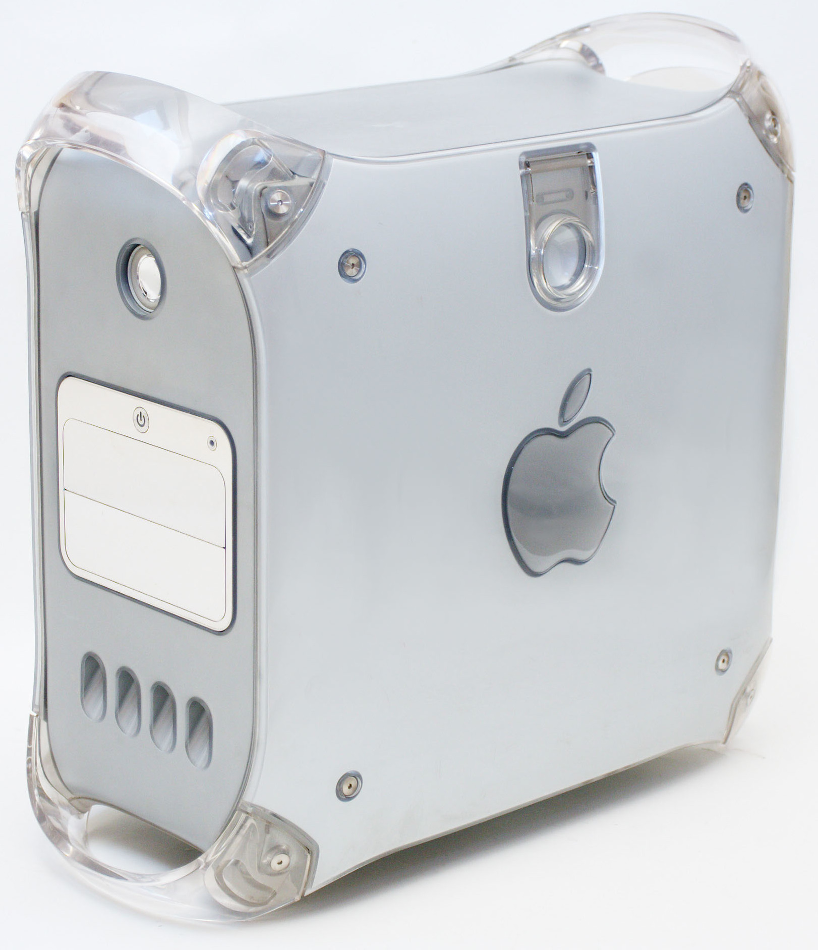 Apple PowerMac G4 M8570 ("Mirrored Drive Doors" model)